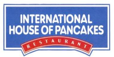 IHOP's former logo used until 1994